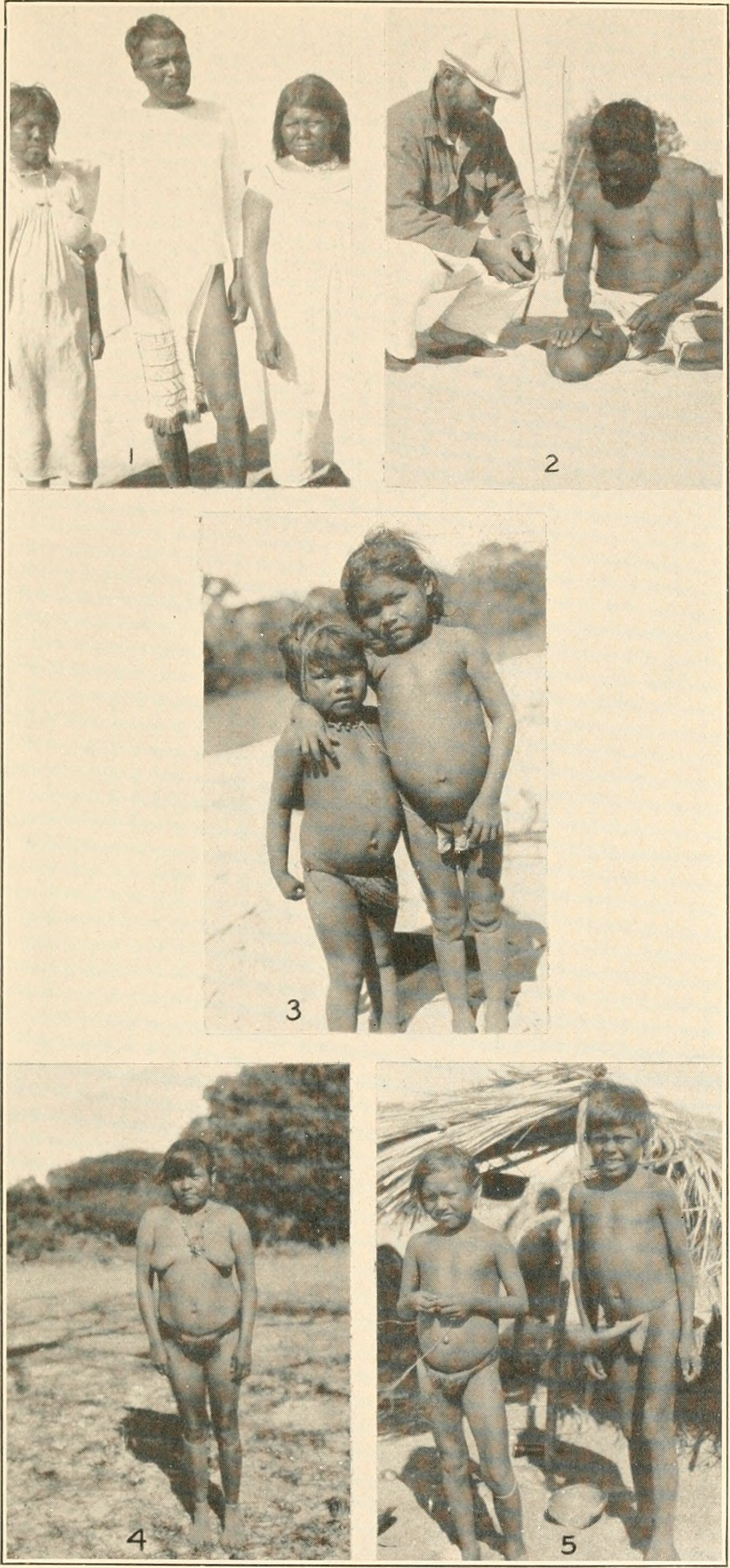 Title: Bulletin Year: 1901 (1900s) Authors: Smithsonian Institution. Bureau of American Ethnology Subjects: Ethnology Publisher: Washington : G. P. O. Text Appearing Before Image: BUREAU OF AMERICAN ETHNOLOGY BULLETIN 123 PLATE 25 Text Appearing After Image: /. The shaman Landaeta with daughter and wife. Note the embroidered breechclout on the man and paint on the face of the figure at the left. 2. Yaruro man mailing hammock string. Note the typical sitting posture of the Yaruro. 3. Two little girls wearing girdles, i. Yaruro woman with aboriginal costume. 5. The figure on the left is a girl. The figure on the right is a bov. Note the difference between the girdle worn by the girl and the breechclout worn by the boy.